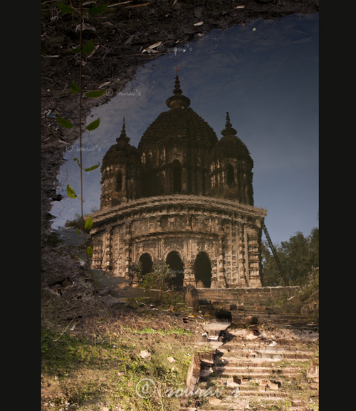 Chandrakona